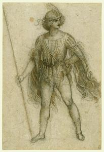 A masquerader as an exotic pikeman